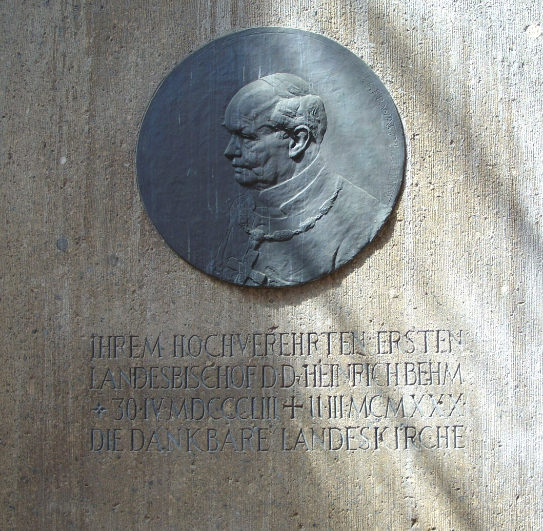 memorial for Heinrich Behm in the Schwerin Cathedral Schwerin, Germany